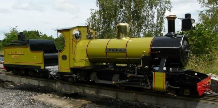 Sir Arthur Heywood